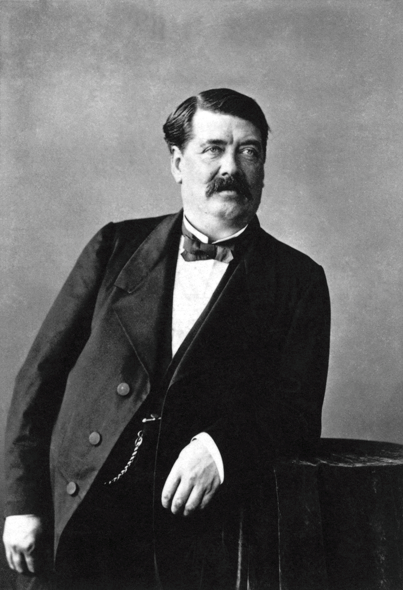 Photograph of Hippolyte de Villemessant (1810–1879) French media proprietor by Nadar.